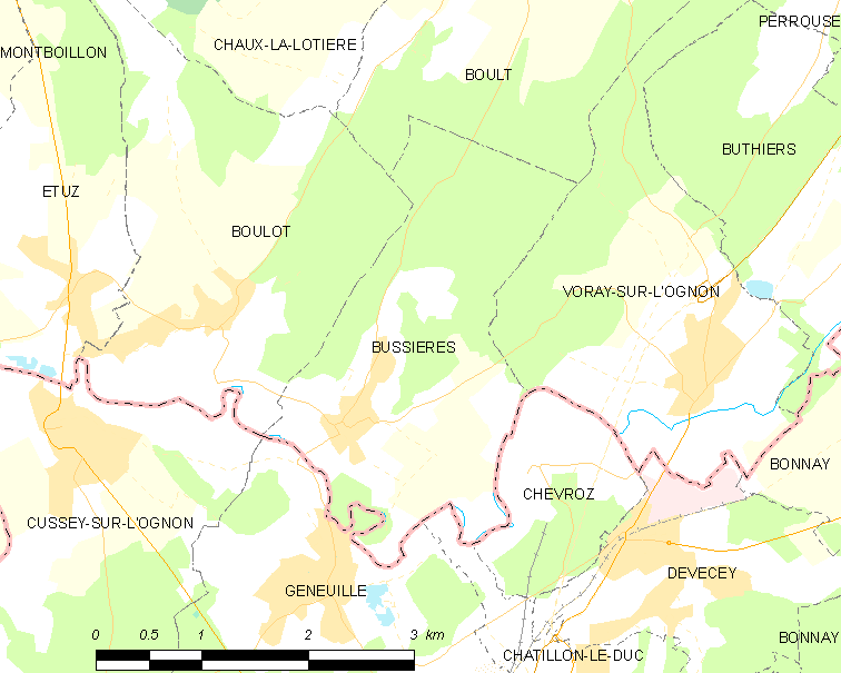 Map of French municipality